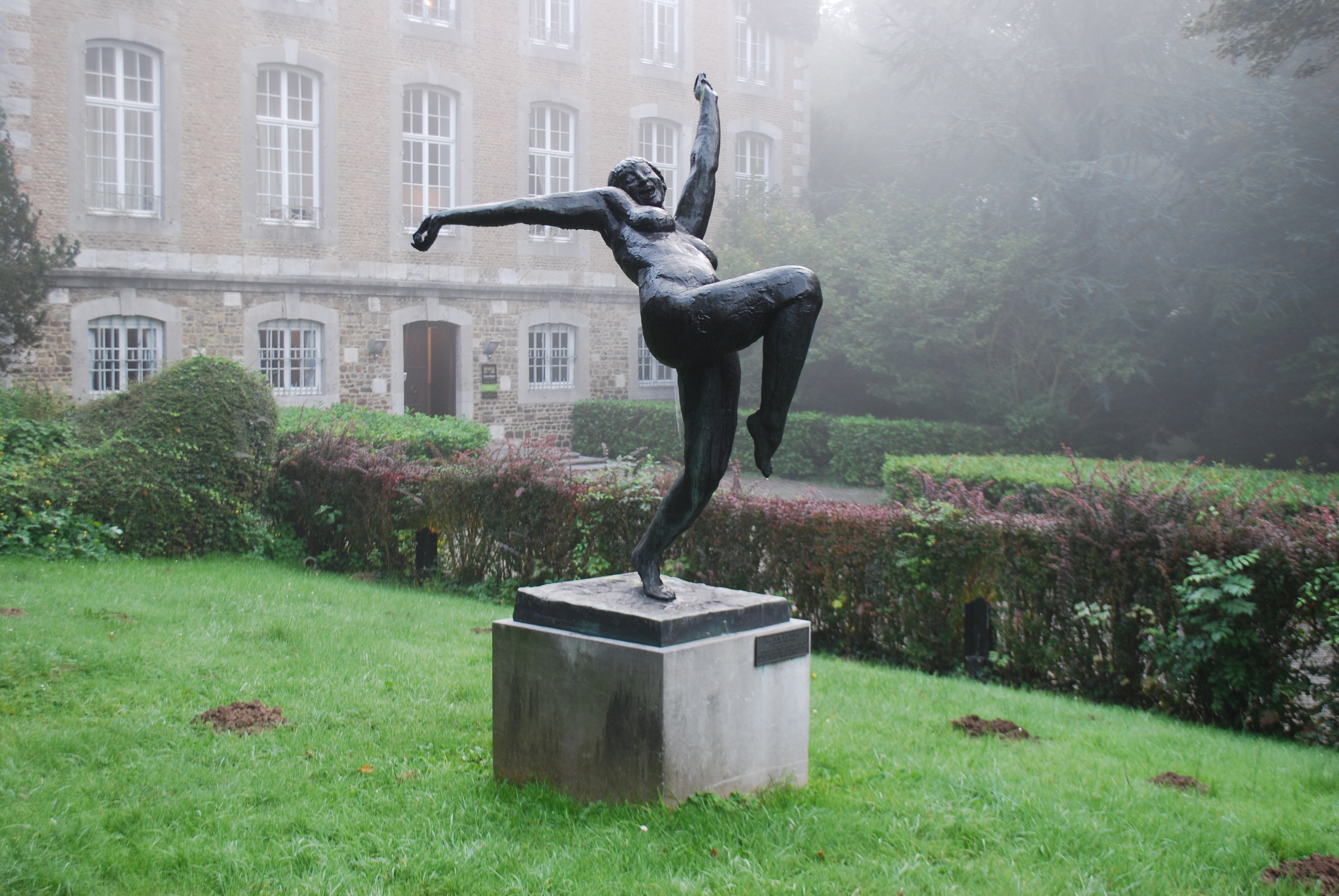 Rik Wouters, "The Mad Virgin", 1912, The Sart-Tilman Open-air Museum, Colonster Castle, University of Liège, Belgium.